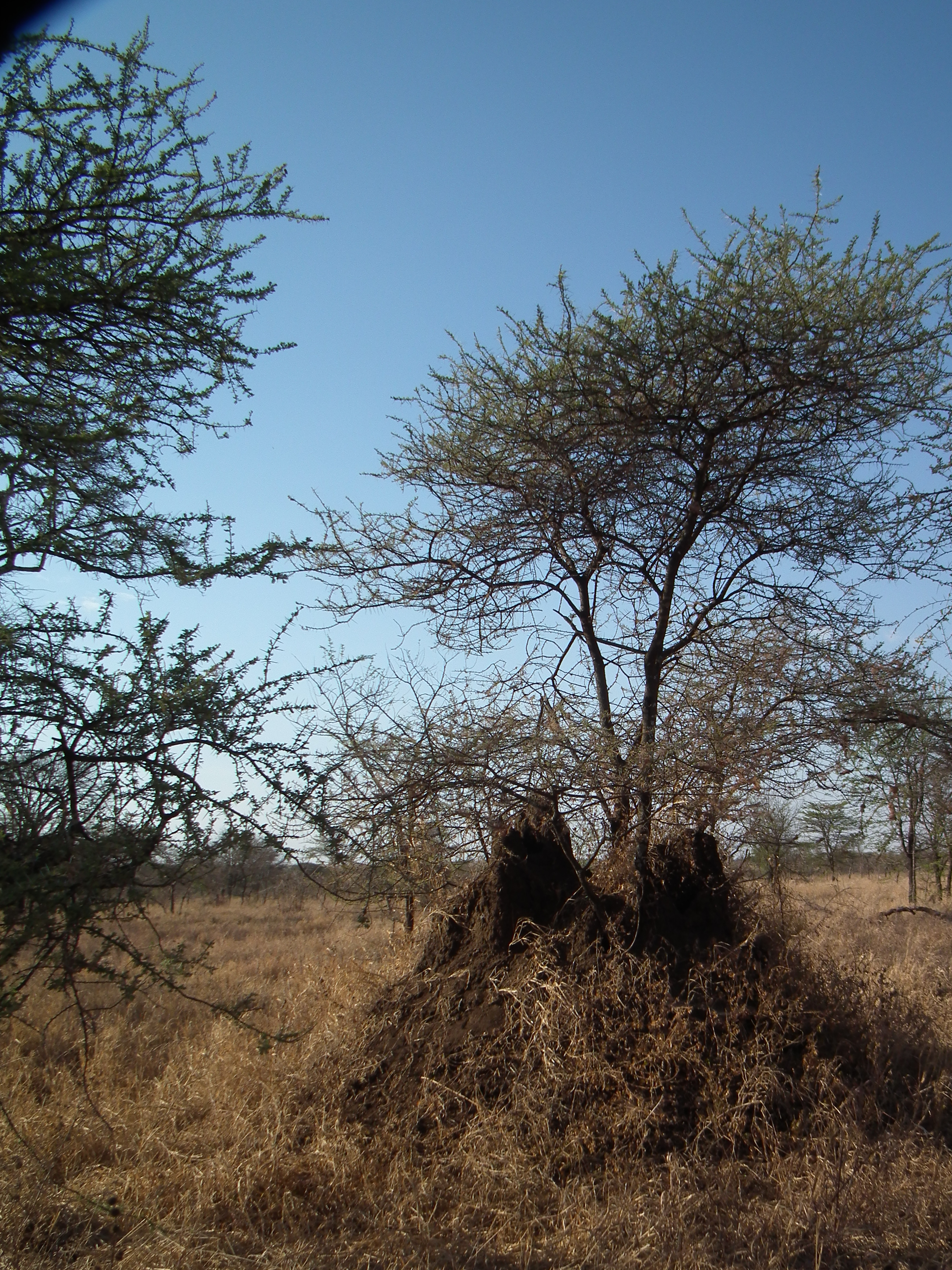 Banded Mongoose, Mungos mungo from Tanzania